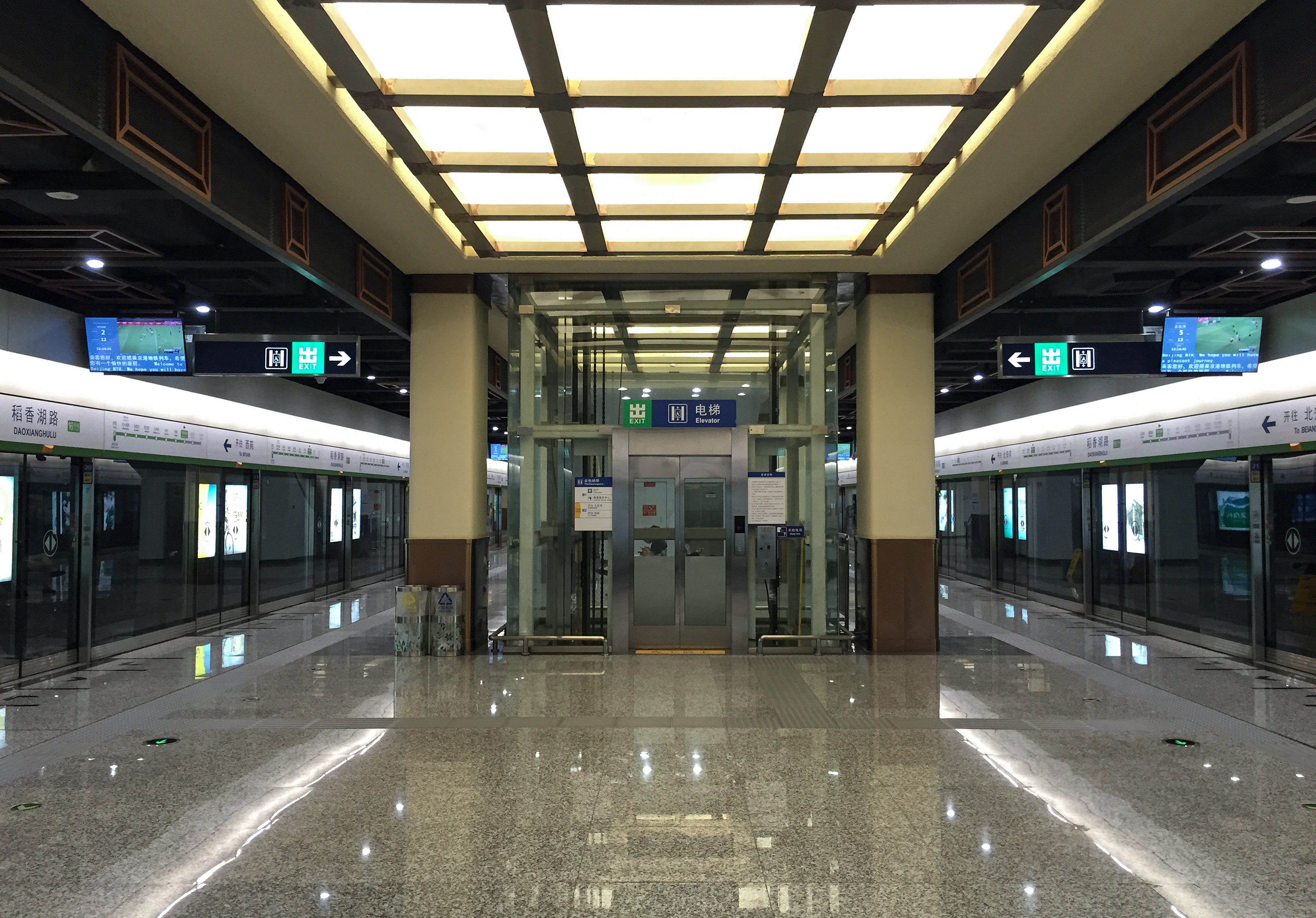 Brilliant canopy.